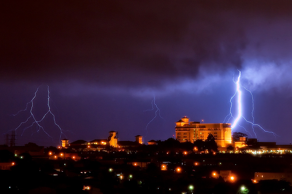 See more photos below... There was a big storm that night in Campinas, São Paulo, Brazil. 3 people died, hundreds of trees broken by the wind, many major avenues flooded. I've been waiting for a storm like this and trying to capture lightning for a long time! Several people suggested a cropped version of the original, so here it is. The yellow building is a famous hotel called The Royal Palm Plaza, near my home. in Campinas)&t=h See the exact location of the hotel in Google Maps. - - - Veja mais fotos abaixo... Teve uma grande tempestade aquela noite em Campinas, SP. 3 pessoas morreram, centenas de árvores foram derrubadas pelo vento, grandes avenidas inundadas. Fazia tempo que eu esperava por uma tempestade dessa pra tentar capturar uns raios! Muitas pessoas sugeriram um crop da versão original, então aqui está. O prédio amarelo é o The Royal Palm Plaza, hotel famoso perto de casa. em Campinas)&t=h Veja a localização do hotel no Google Maps.